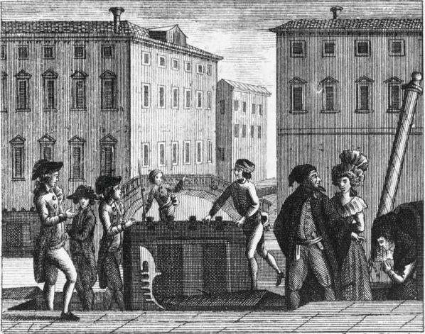 La putta onorata, Goldini play